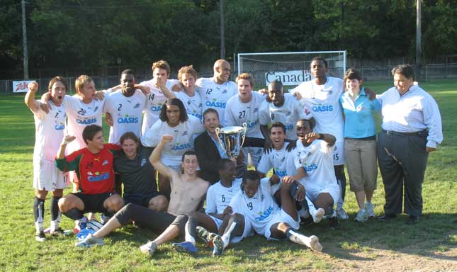 Trois Rivieres Attak team photo following the 2007 Open Canada Cup in London, Ontario.